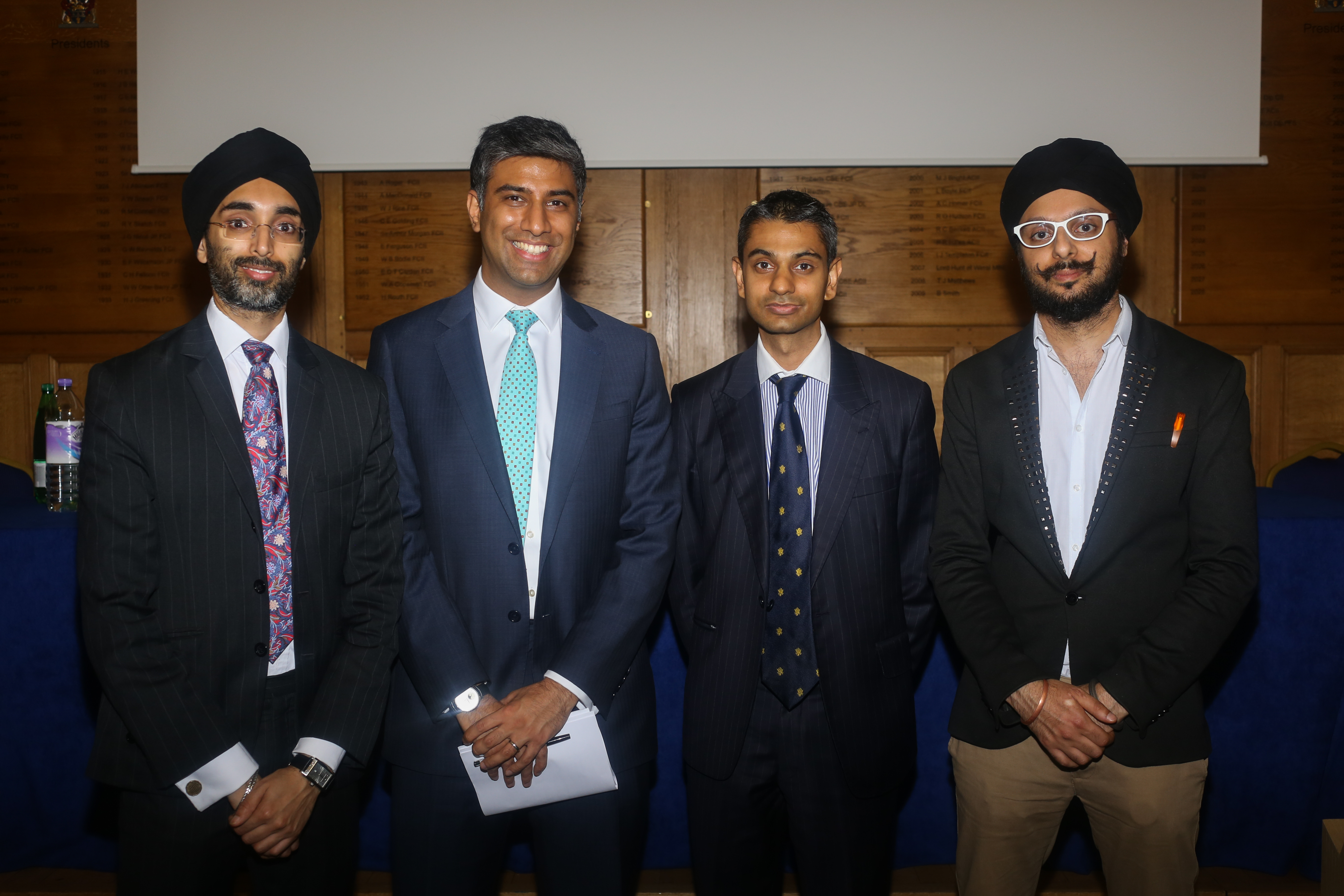 The founders and chairmen for the City Hindus Network and City Sikhs at a joint Hustings in the City event